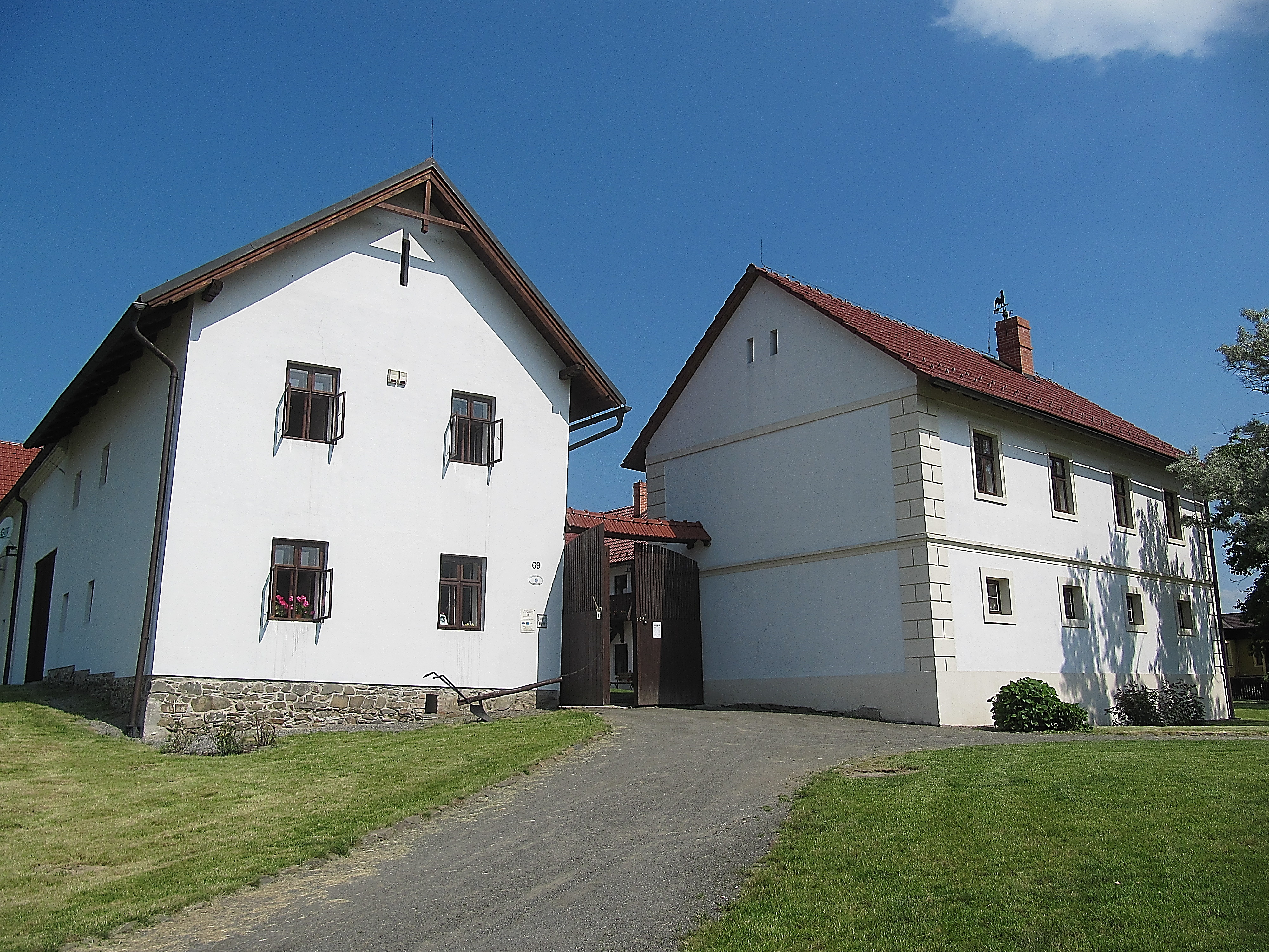 Vražné, Nový Jičín District, Czech Republic, part Hynčice. Birthplace of Gregor Mendel.